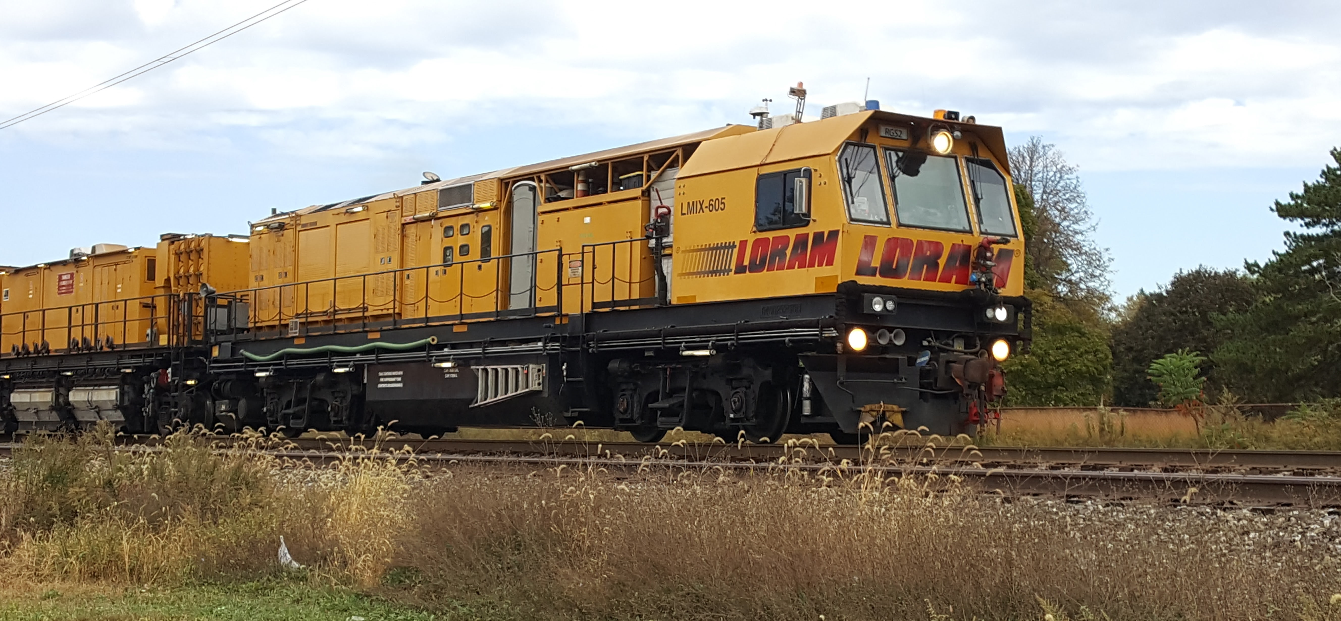 A LORAM Maintenance of Way, Inc. LMIX-605 rail grinder at work on tracks owned by the Norfolk Southern Railway at about 9800 Broadway Avenue in Cleveland, Ohio, in the United States. LORAM Maintenance of Way is an American company based in Harmel, Minnesota. It provides a wide range of track maintenance services, including rail grinding (which eliminates burrs and imperfections on existing rails, making for faster travel, less damage to equipment, and longer-lasting rails); ditching and drainage maintenance; ballast cleaning; and track replacement services. It sells its equipment to railroads, as well as leases it.